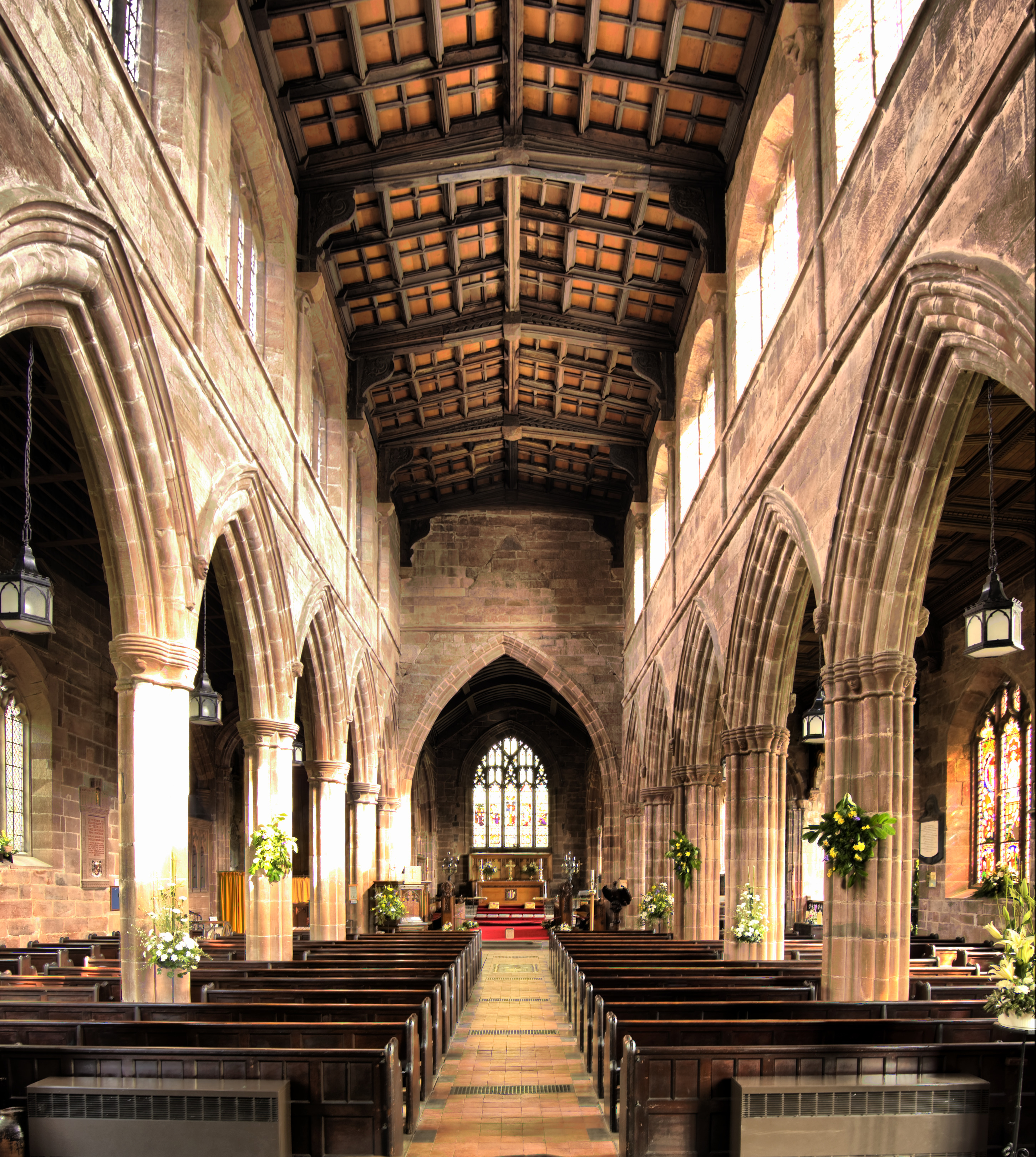 St Mary and All Saints Church, Great Budworth interior